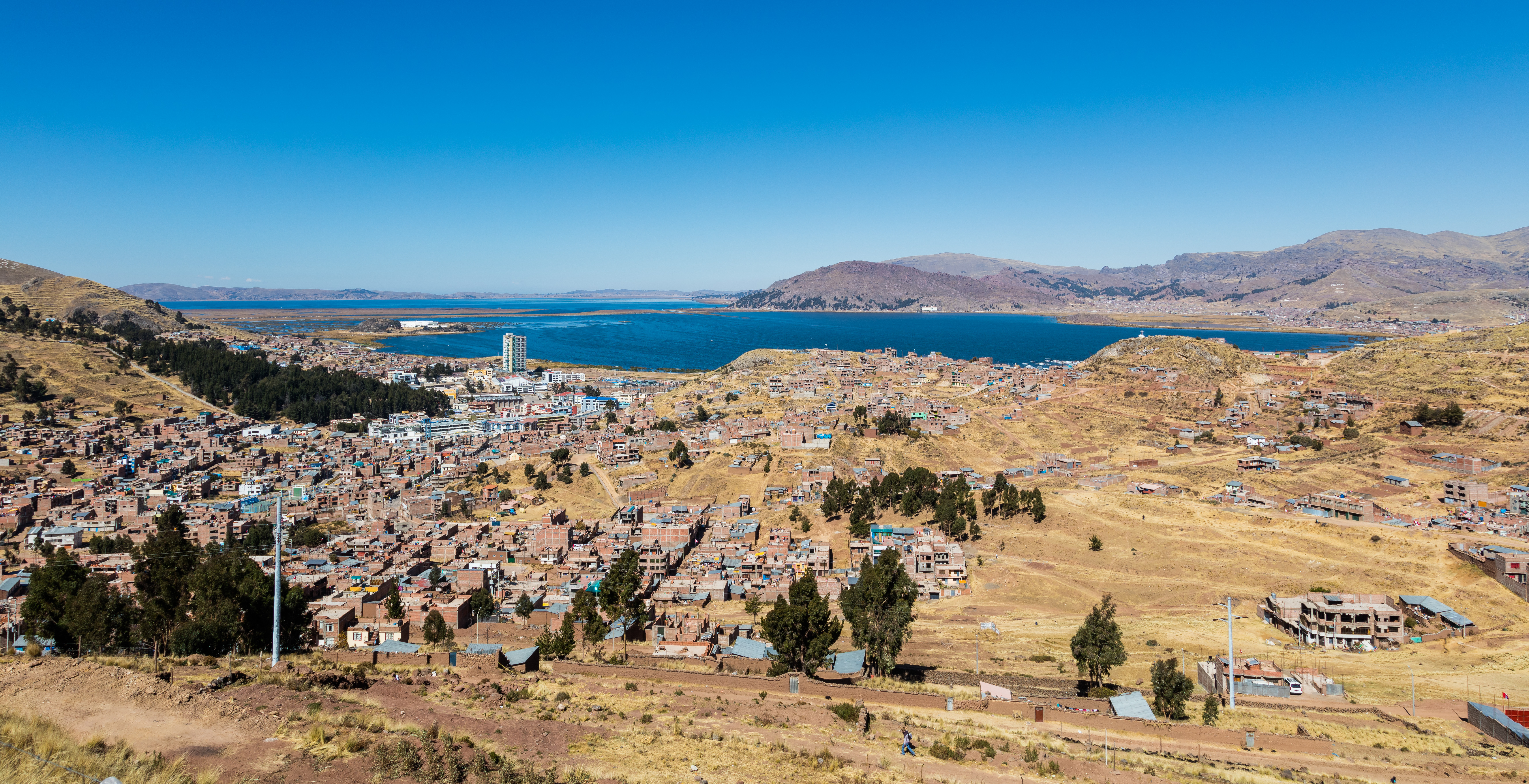 View of Puno and the Titicaca lake, Peru